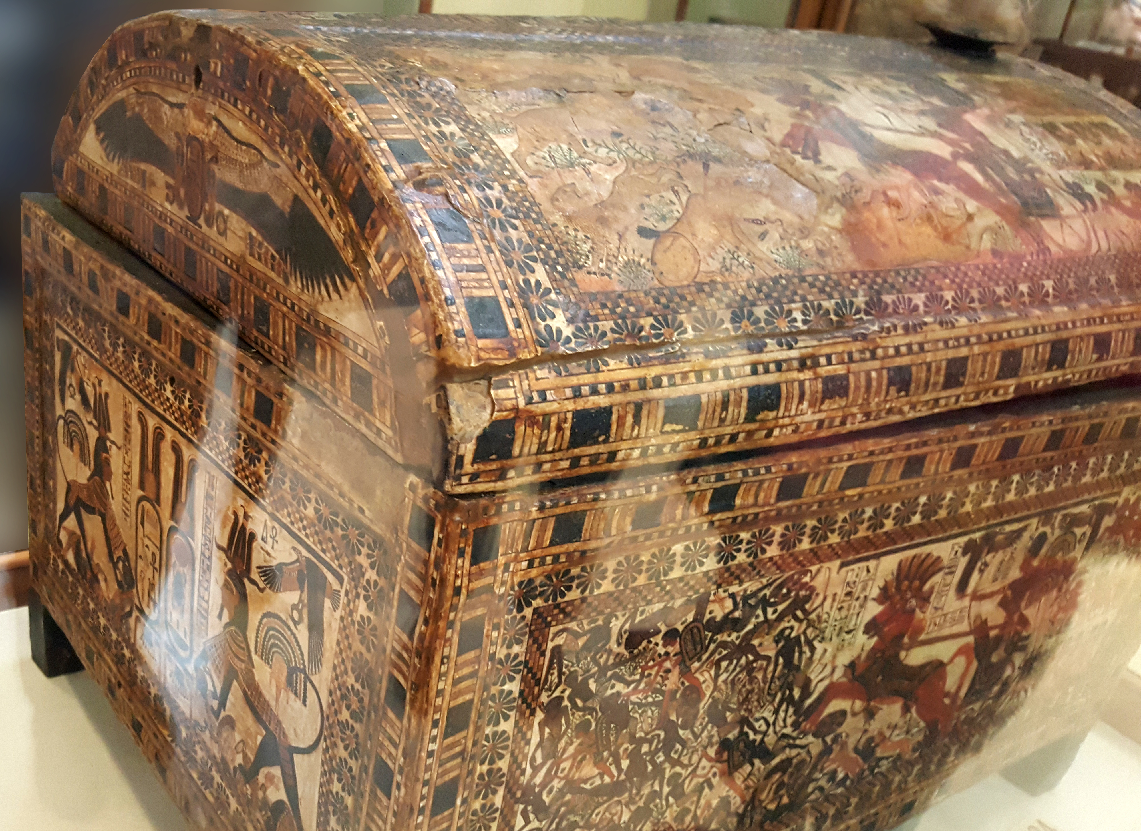 Tutankhamun chest